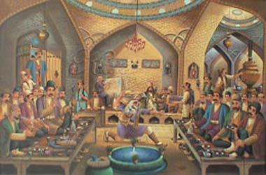 Iranian Azari style of Ghahvekhane/Chaykhane.